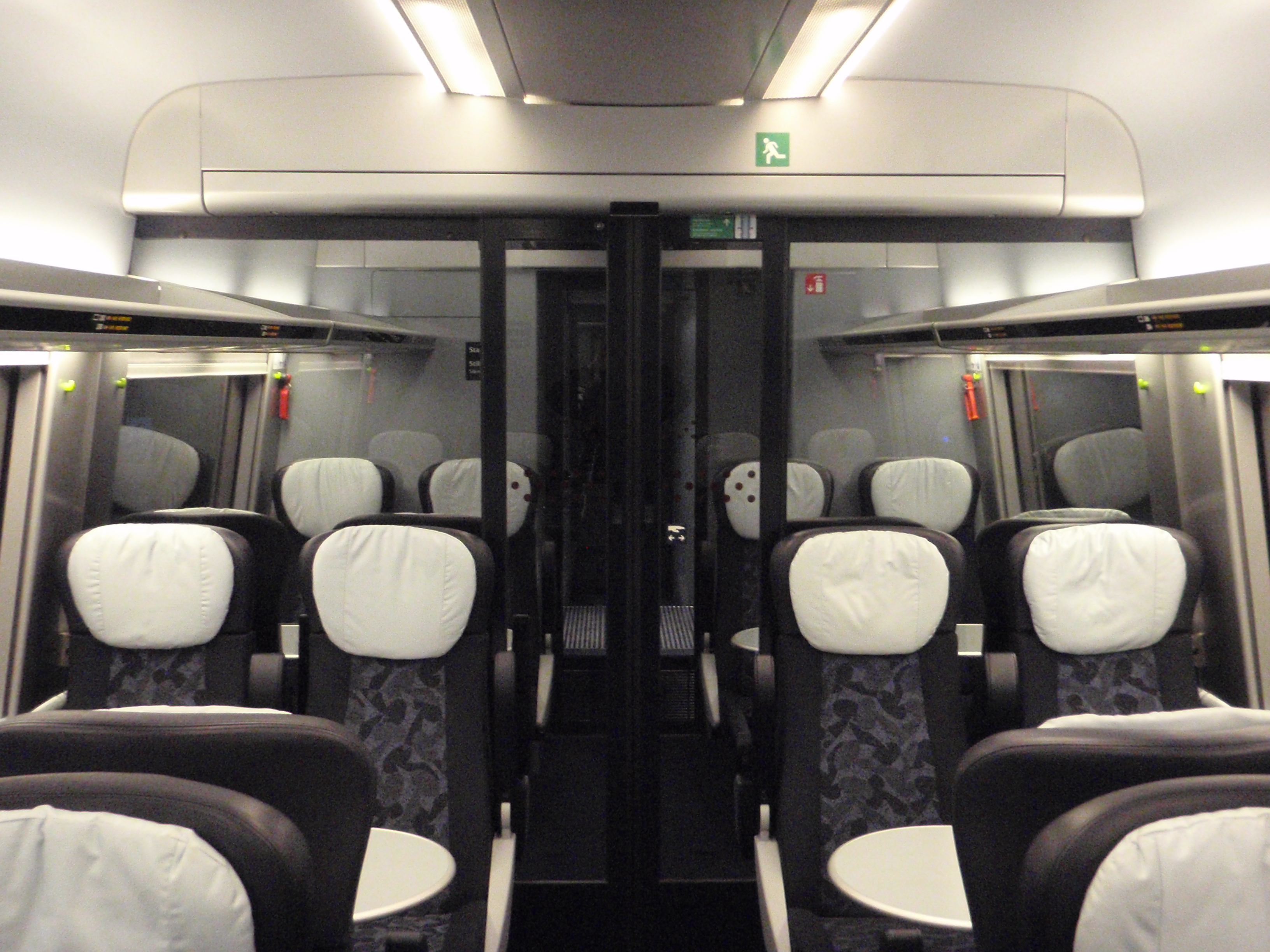 IC4 MG interior 8 seats and 16 seats compartments